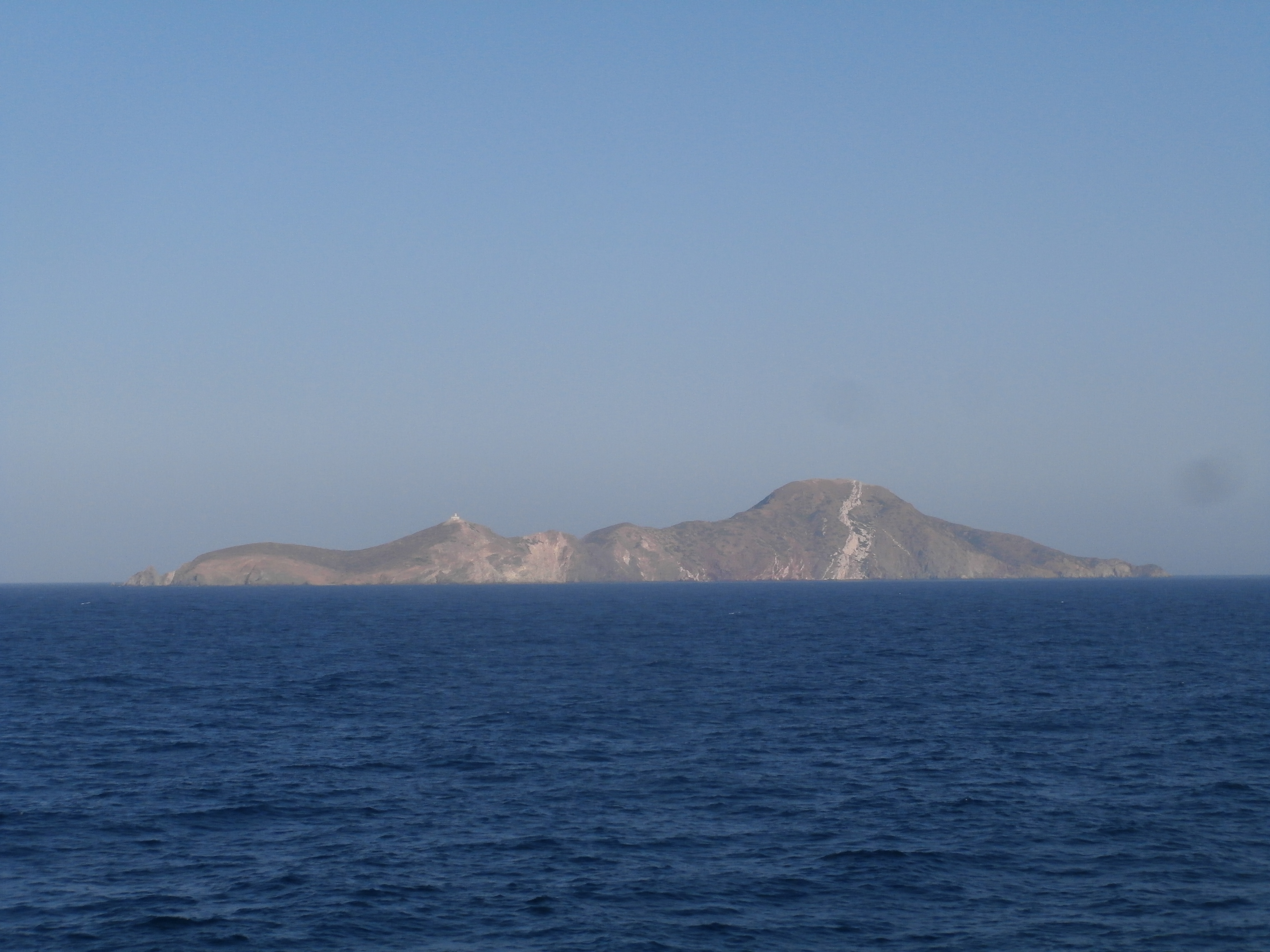 The island of Velopoula for the West.